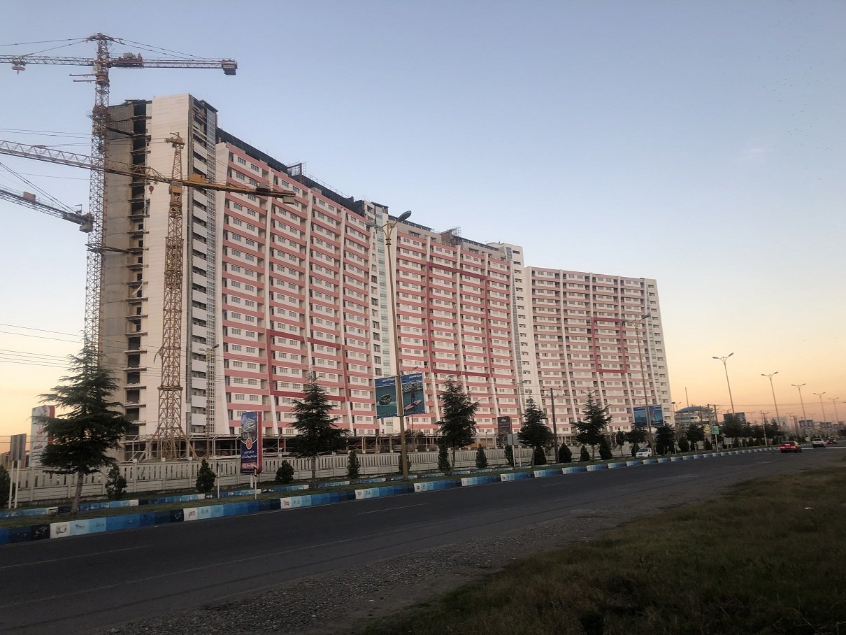 Anzali